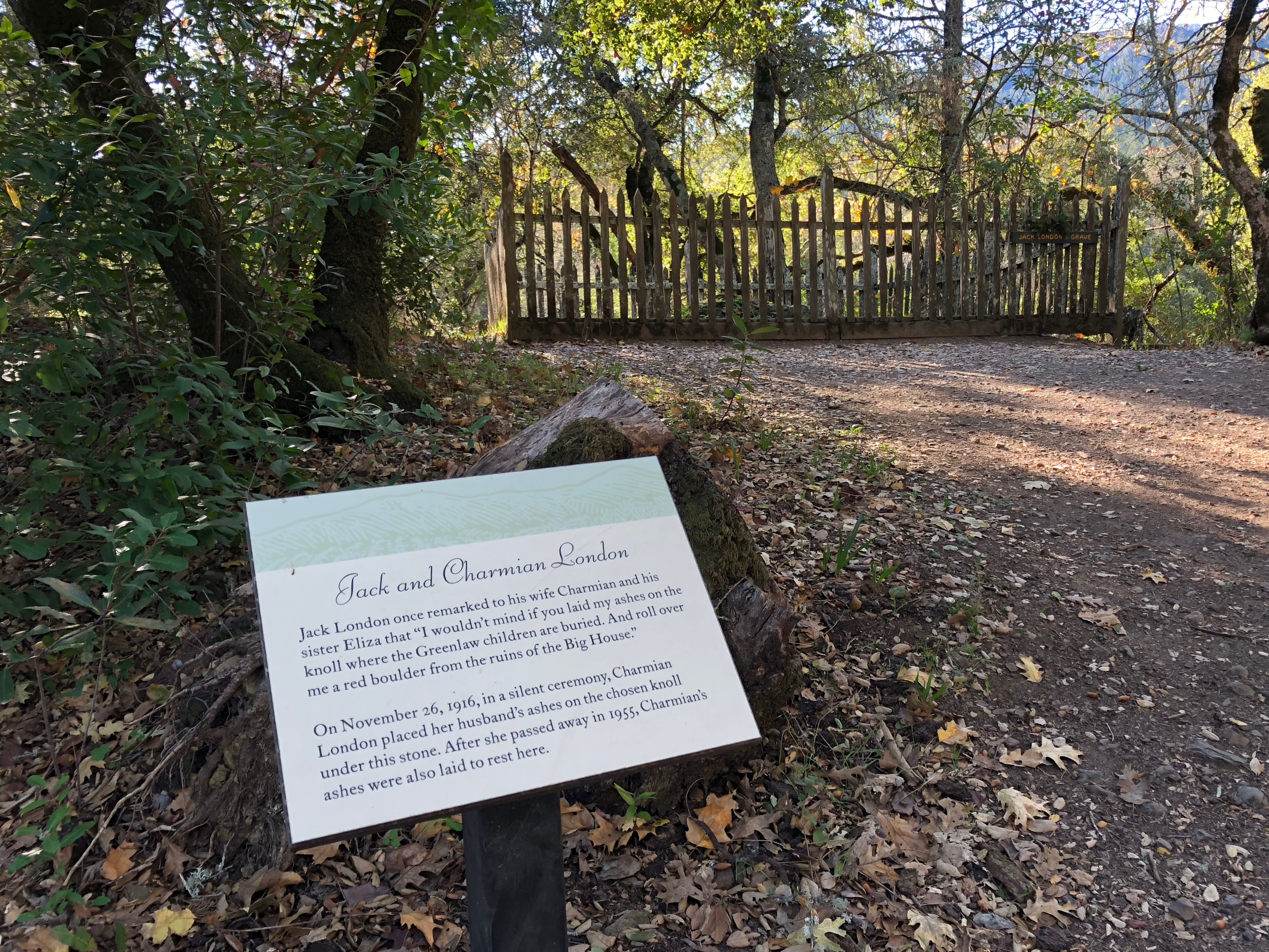 Gravesite of Charmian and Jack London, Jack London State Historic Park, Glen Ellen, Sonoma County, California